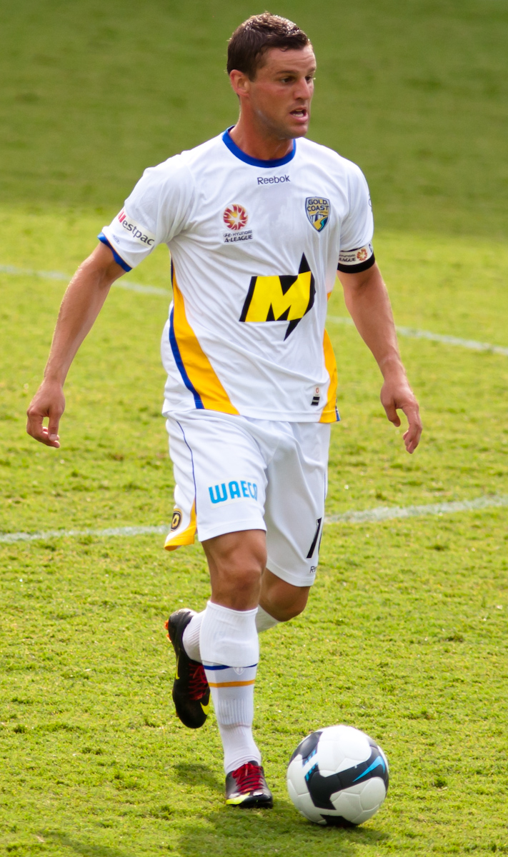 Jason Čulina playing for Gold Coast United against Sydney FC in the 2009-10 A-League.